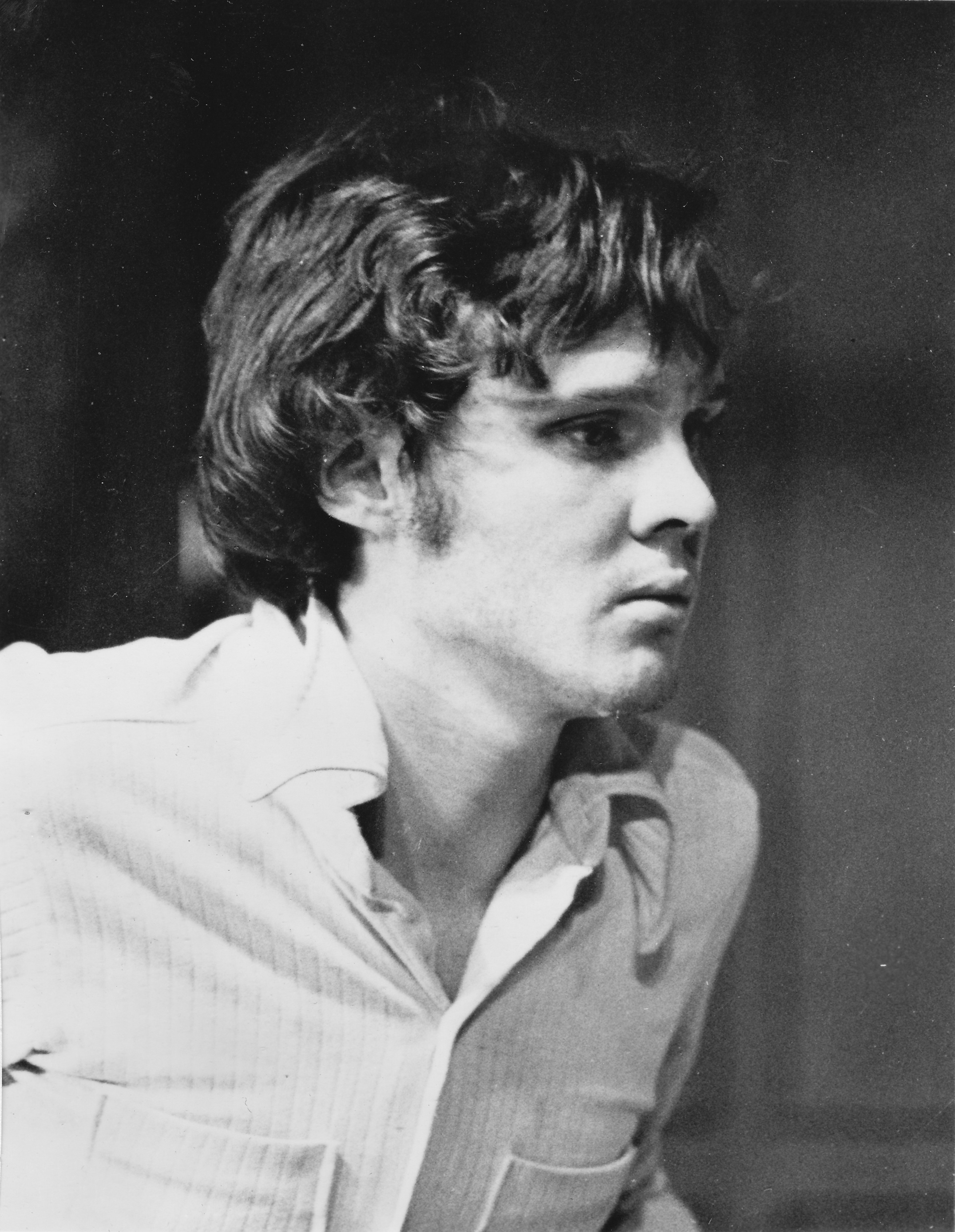 Publicity photo of American actor Jay North promoting his role in the 1973 St. Charles, Illinois dinner theatre production of Butterflies Are Free.